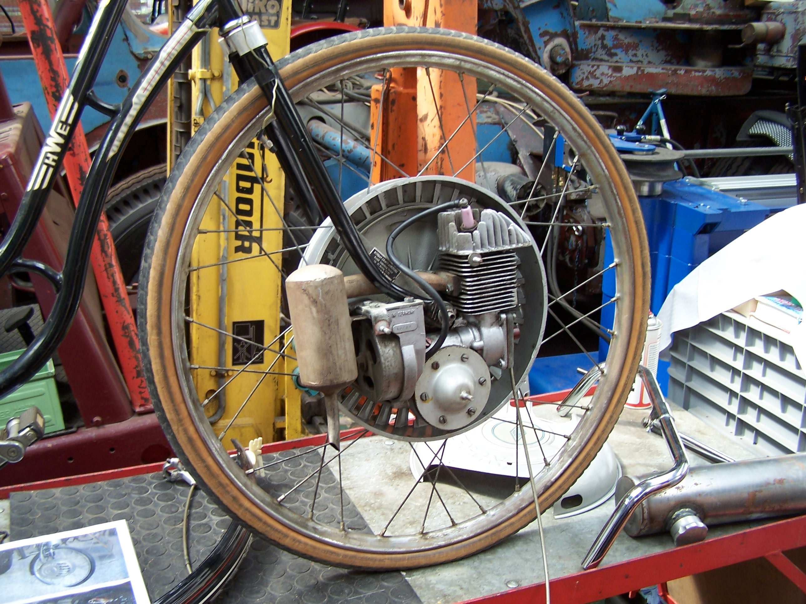 Bicycle with front wheel auxiliary motor in the Technical Collection Hochhut in Frankfurt on Main